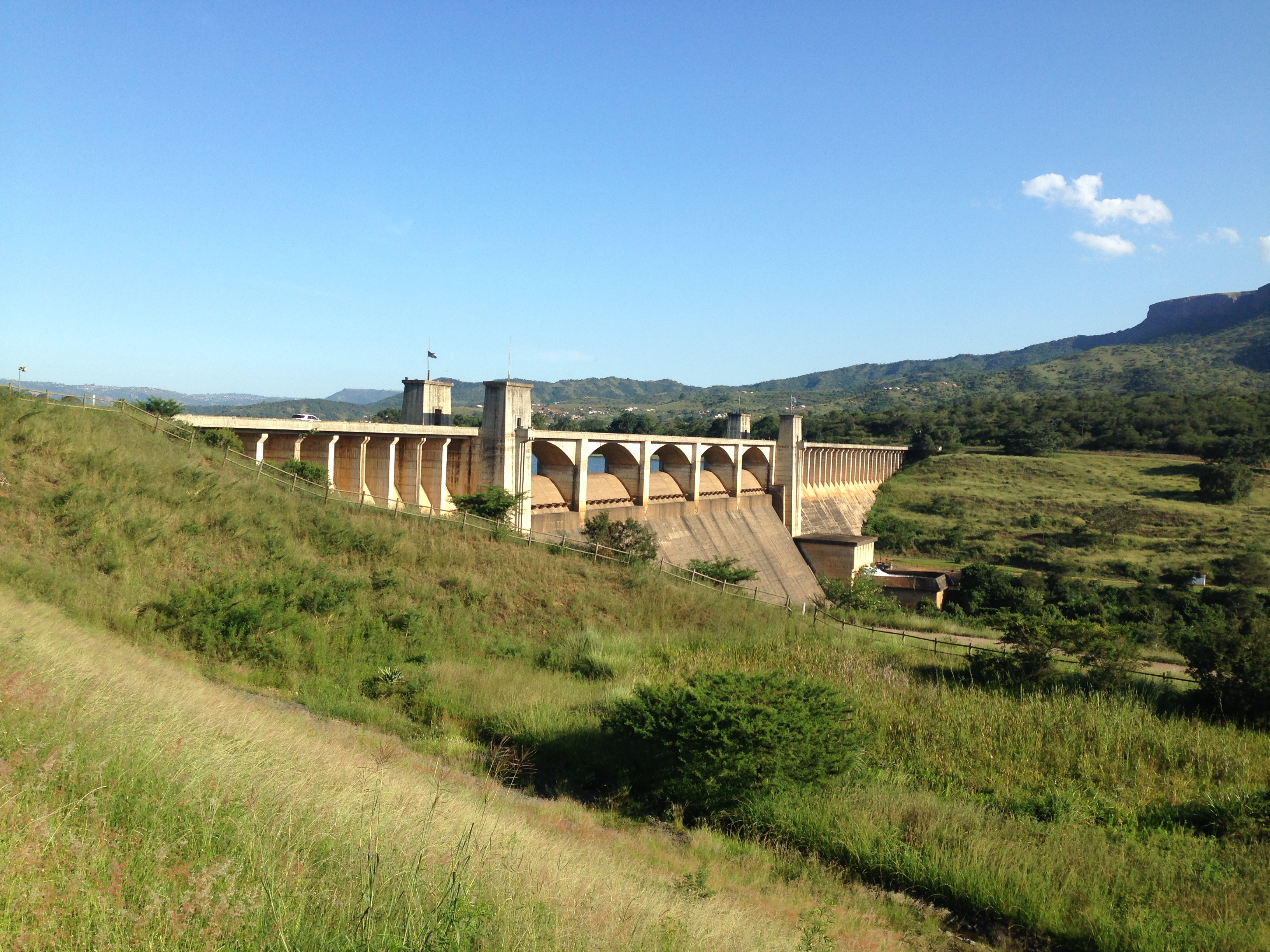 A view of Nagle Dam, near Cato Ridge in KwaZulu-Natal, South Africa.